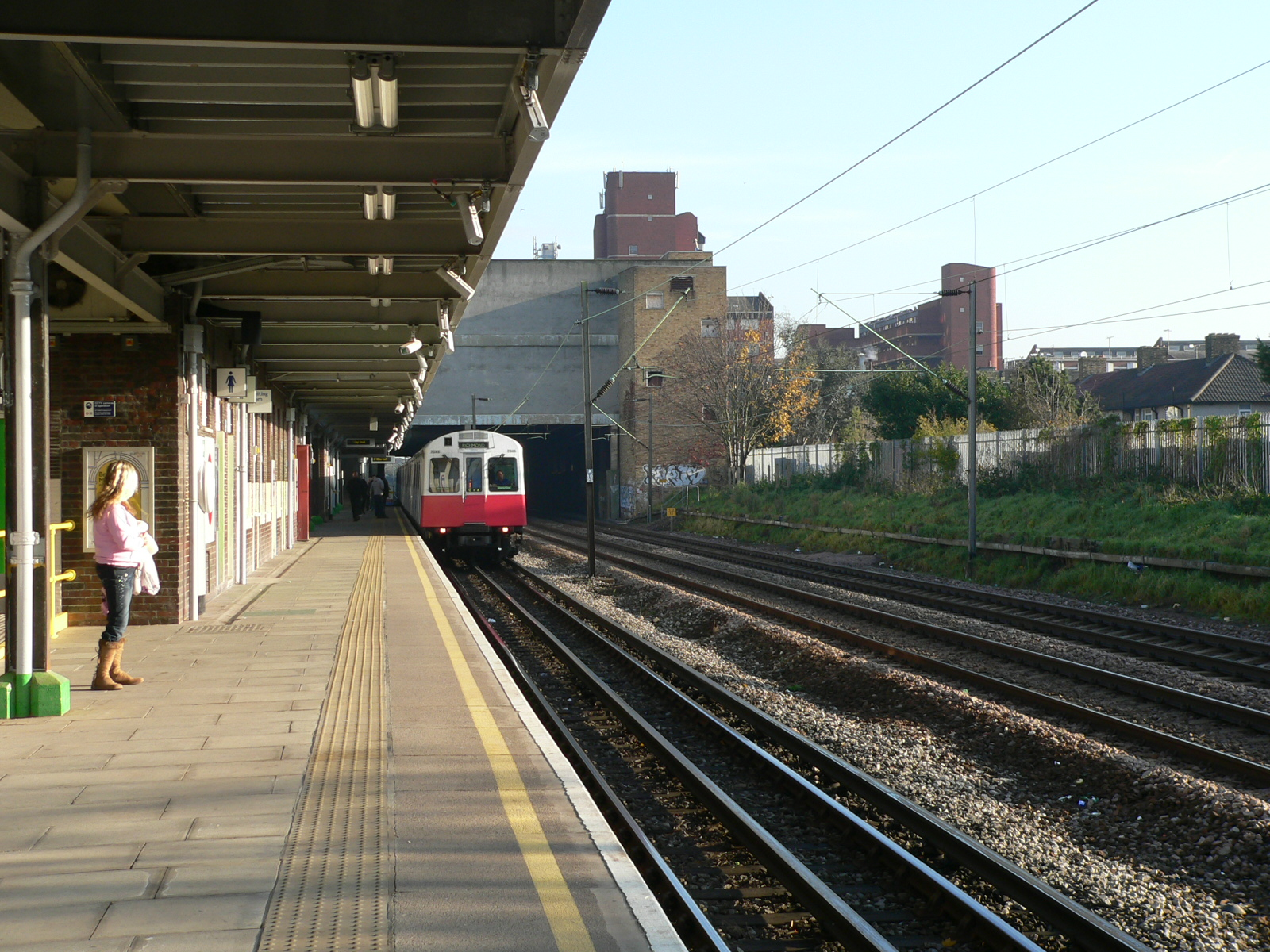 A westbound D-stock District Line train arrives into Dagenham Heathway tube station.